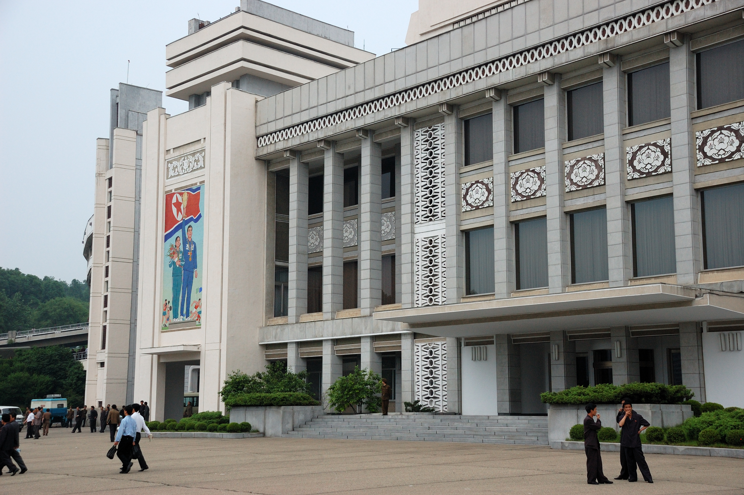 Trip to North Korea in June, 2008